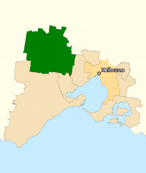 This image incorporates data that is: © Commonwealth of Australia (Australian Electoral Commission) 2009 Division of Ballarat 2010